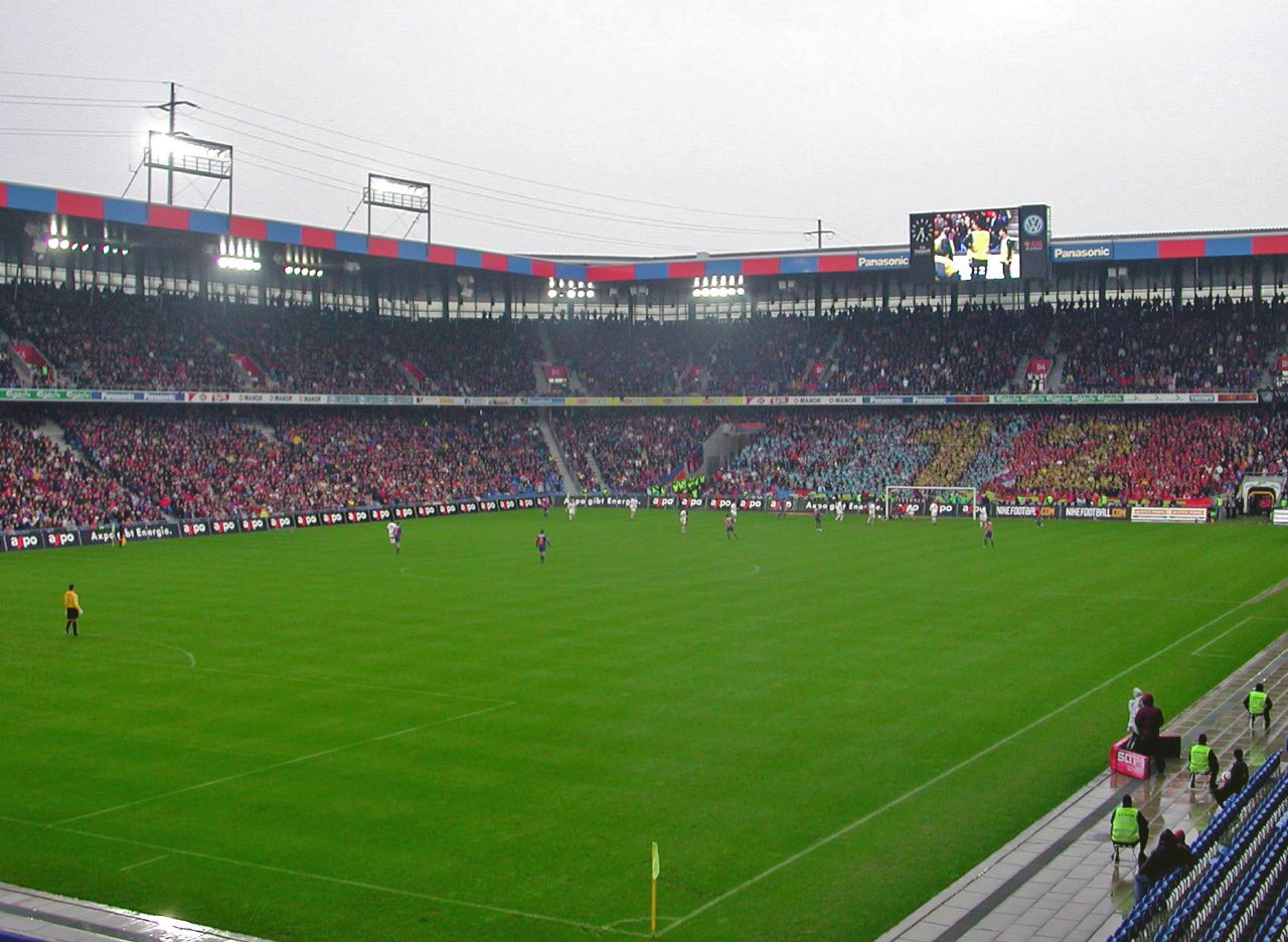 Photograph of FC Basel's stadium (St. Jakob-Park)